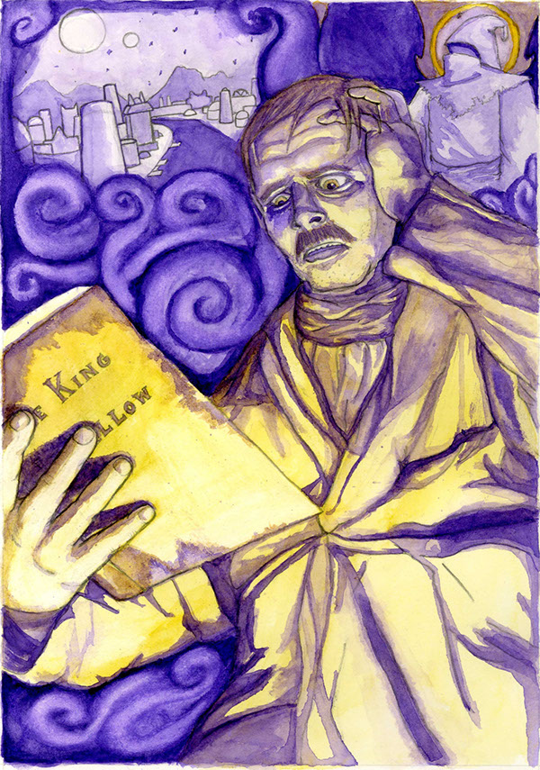 Hildred Castaigne reading The King in Yellow. Tucker Sherry's artwork inspired by Robert W. Chambers' short story "The Repairer of Reputations".